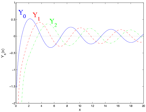 plot of the Bessel functions of the second kind, Y n ( x ) {\displaystyle Y_{n}(x)} , of orders n = 0 , 1 , 2. {\displaystyle n=0,1,2.}